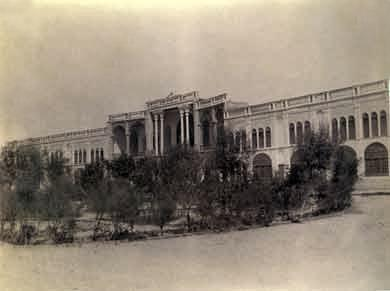 Bagh-e Shah, Tehran, Iran